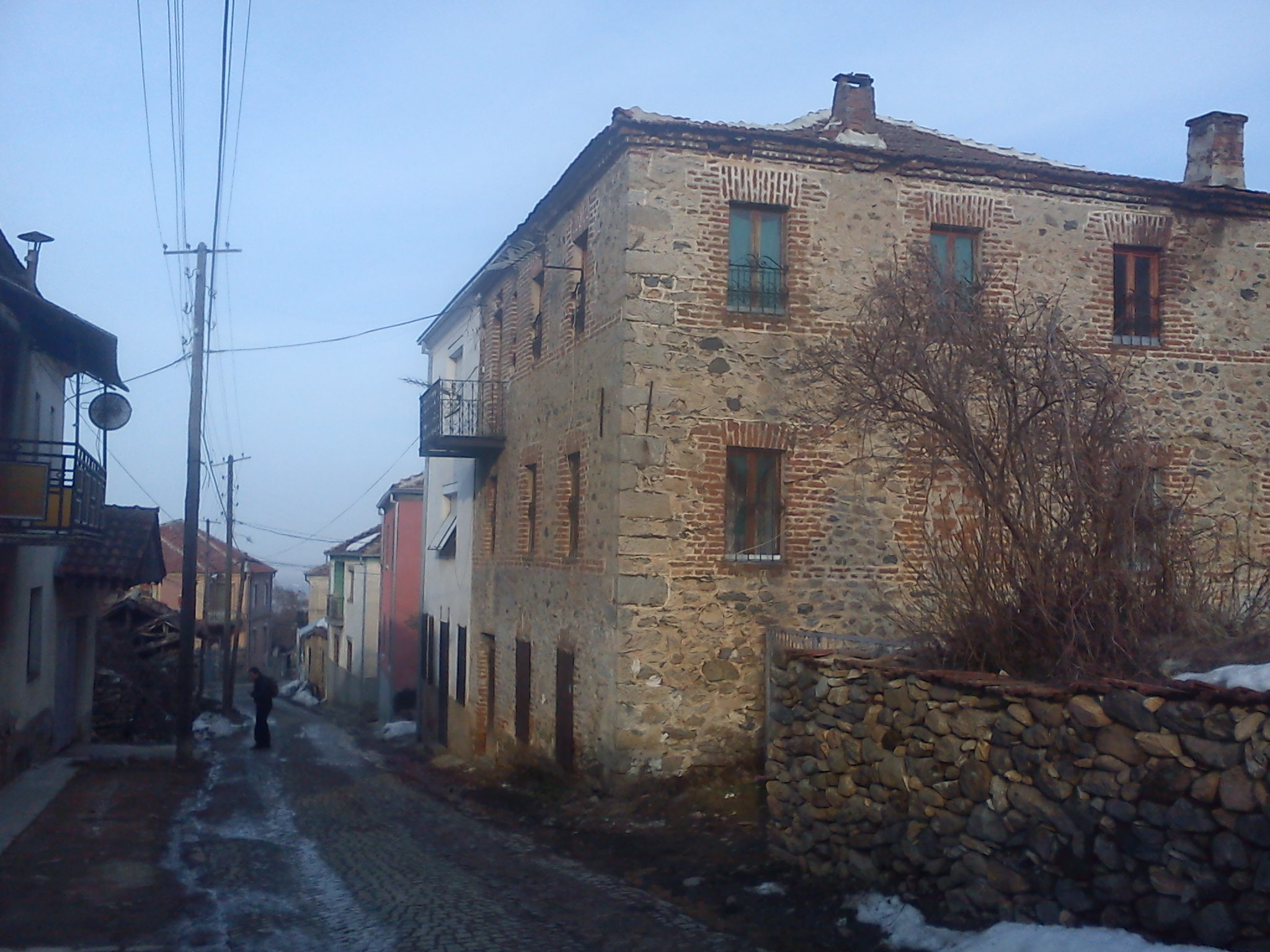 village of Bukovo, near Bitola, Macedonia